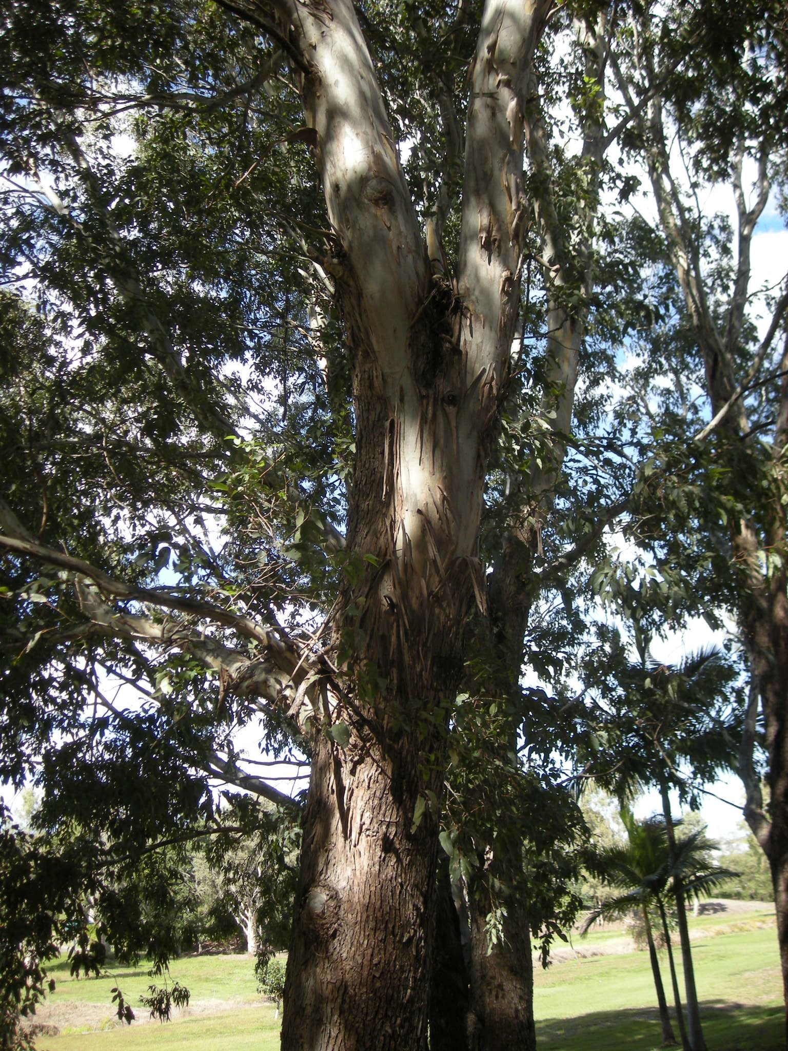 Eucalyptus raveratiana bark